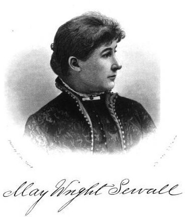 Engraving of May Wright Sewall, an American feminist